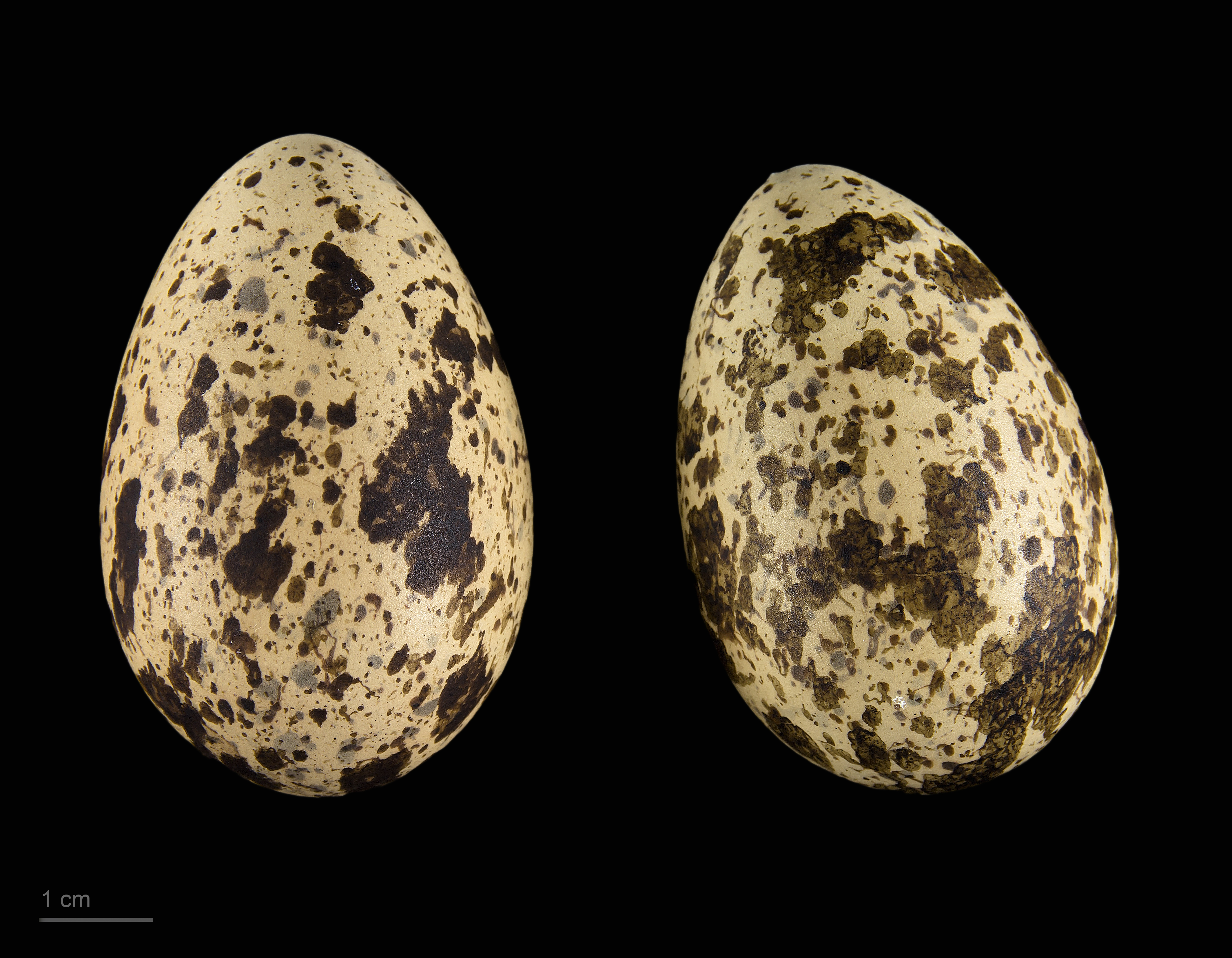 Eggs of Senegal thick-knee Two specimens of the same spawn ; collection of Jacques Perrin de Brichambaut.